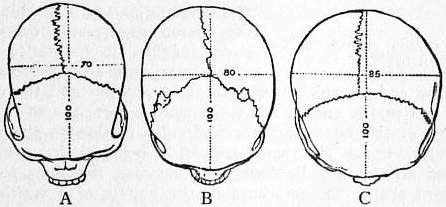 EB1911 Craniometry - Fig. 4.—Top view of skulls